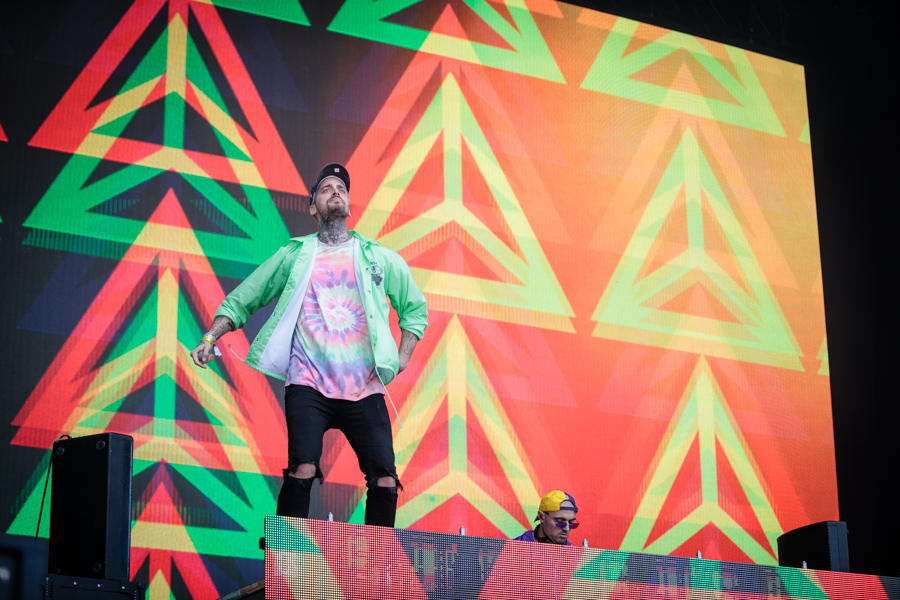 Cheat Codes at the main stage at Stavernfestivalen. The concert took place on 14. July 2018 in Stavern. Lineup:Unidentified (disc jockey and rap)Unidentified (disc jockey and rap)